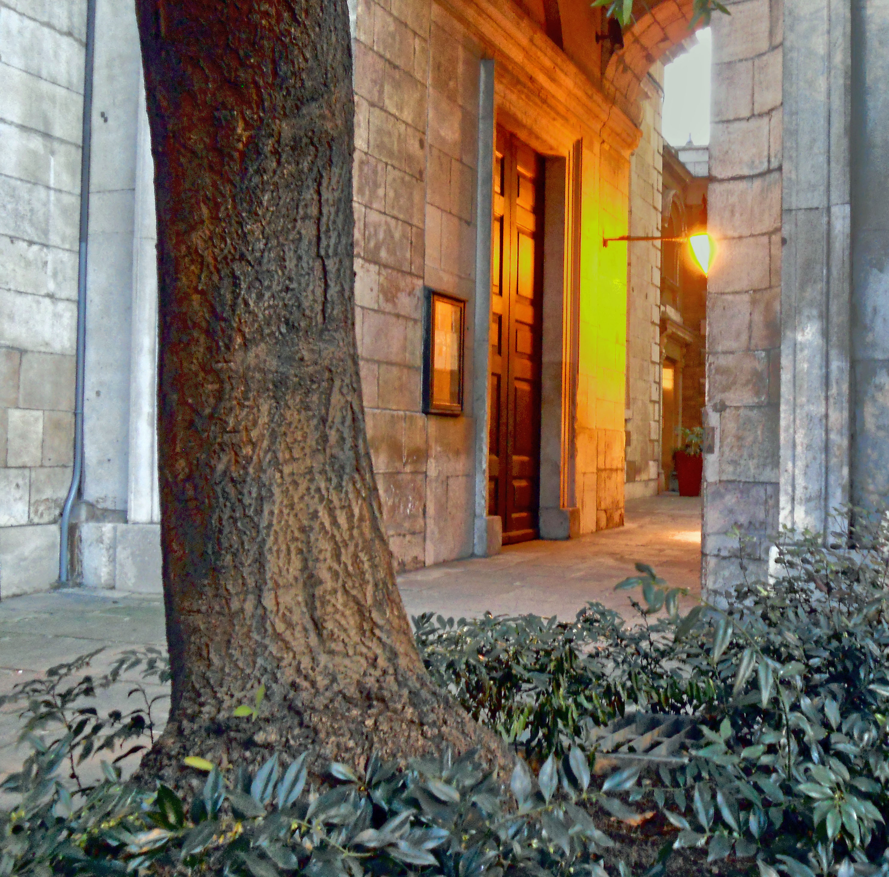 On the banks of the river, at Lower Thames Street. There has been a church here since the eleventh century and, as Jim points out below, some parts of the site go back to Roman times. Lit up for "Guess Where London"